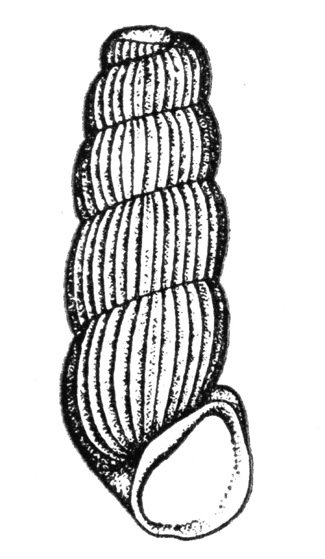 A drawing of Truncatella bilabiata, from p. 6 of: Bryant Walker, 1928. "The Terrestrial Shell-Bearing Mollusca of Alabama", Univ. Mich. Mus. Zool. Misc. Pub. 18.